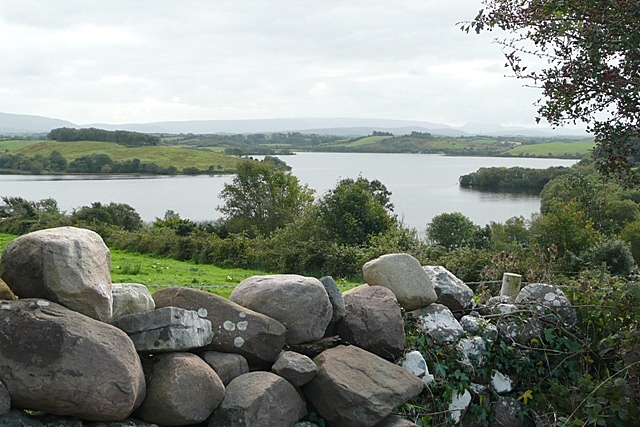 Islandeady Lough This is the largest lough in the area and covers parts of seven squares including half of this one. The land beyond the promontory is not in this square.